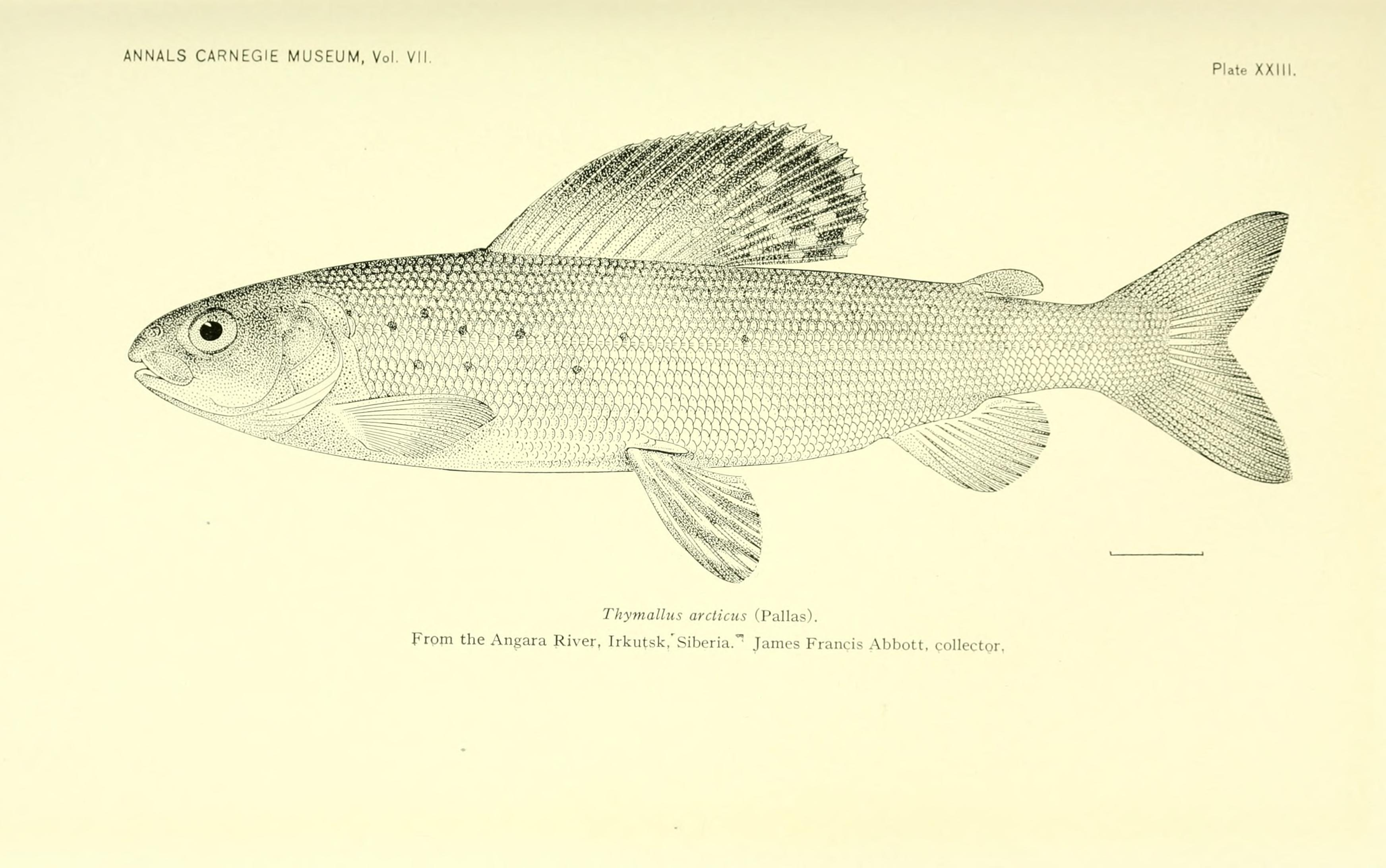 Thymallus arcticus Title: Annals of the Carnegie Museum Year: 1910-1911 (1910s) Authors: Carnegie Museum; Carnegie Museum of Natural History Subjects: Carnegie Museum; Carnegie Museum of Natural History; Natural history Publisher: [Pittsburgh : Published by authority of the Board of Trustees of the Carnegie Institute] Text Appearing Before Image: o o Text Appearing After Image: ^ —1 / lo 1 / _u .2 S 3 PCi